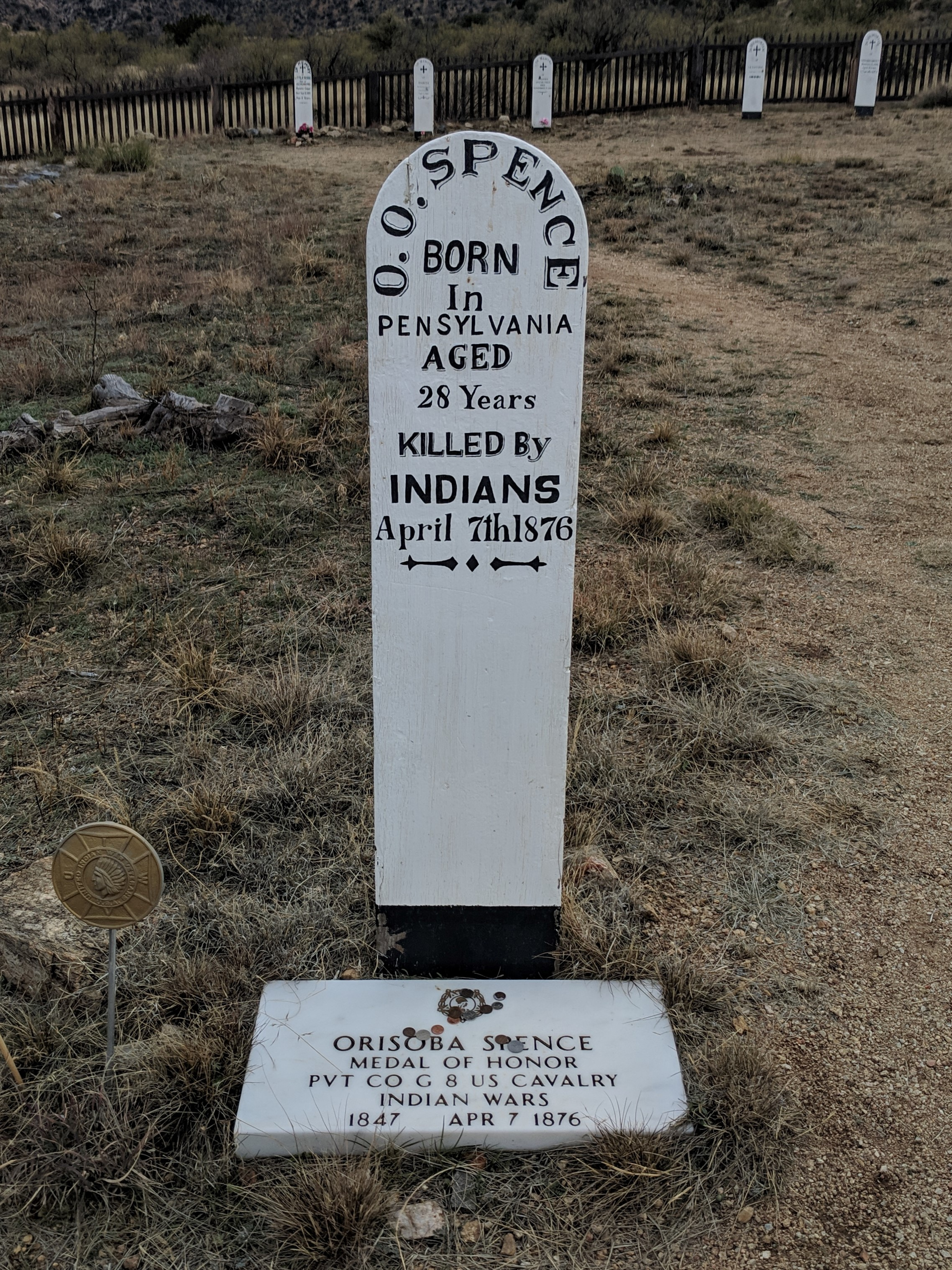 Headboard of O. O. Spence, Medal of Honor recipient interred at Fort Bowie, AZ. The inscription on the replacement headboard for O.O. Spence is based on an historic photograph taken in 1893 by Owen Wister